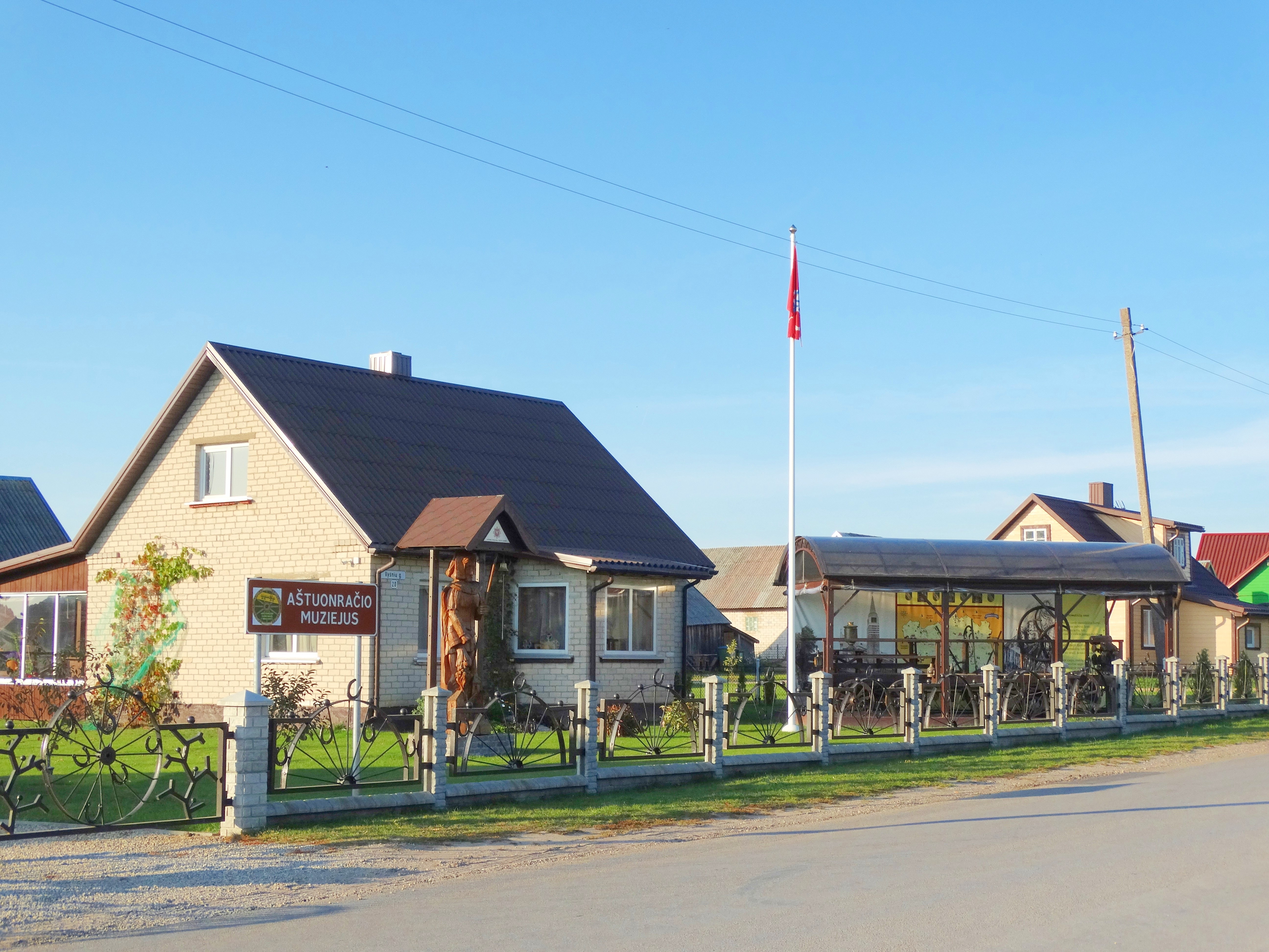 Museum, Nemakščiai, Raseiniai District, Lithuania